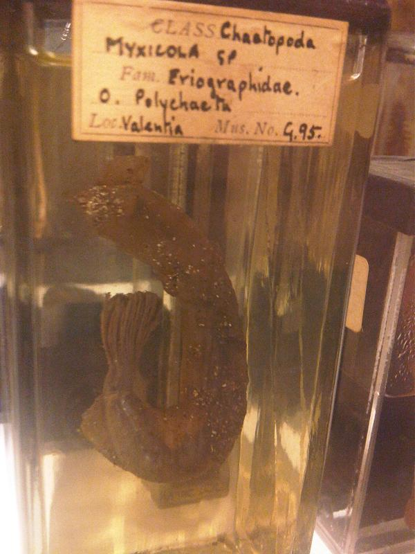 Unidentified Myxicola sp. in Grant Museum of Zoology, London, England.